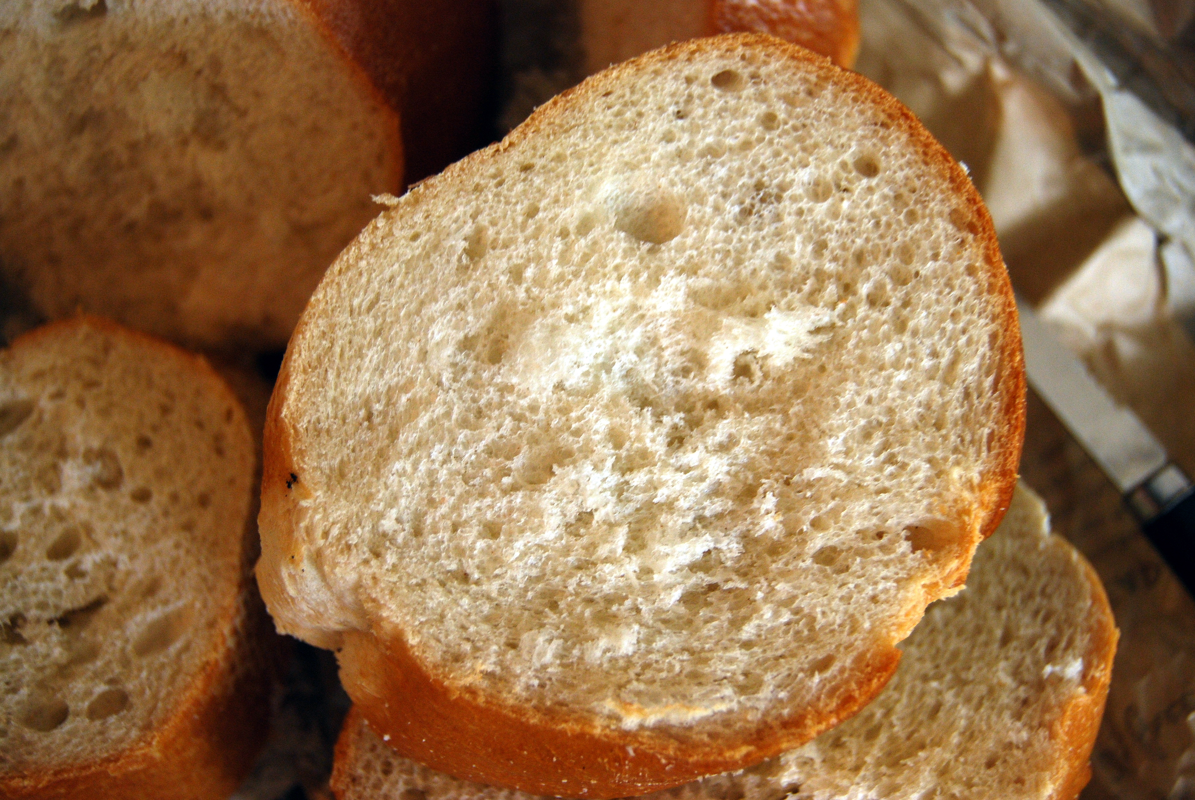 Slices of French Bread